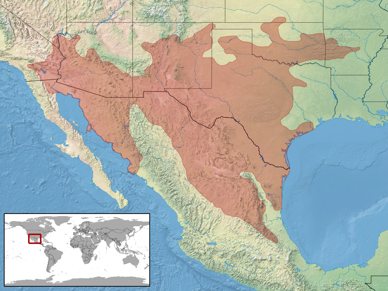 geographic distribution of Crotalus atrox (Native: Mexico; United States)